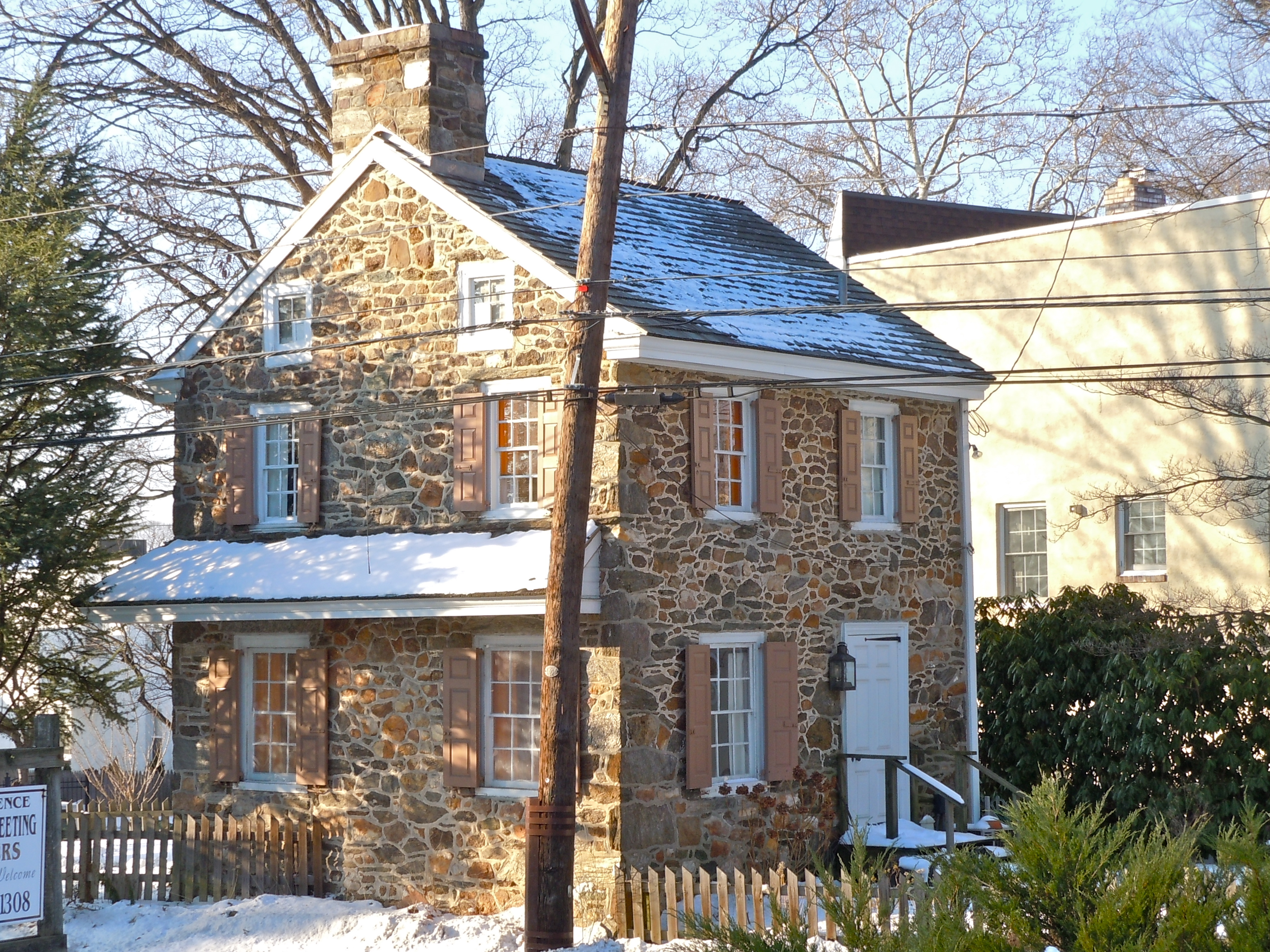 Minshall House in Media, Pennsylvania on PA 252 (Providence Road). Built c. 1750 according to sign in front of house. Owned by the Borough of Media and operated part time as a museum.